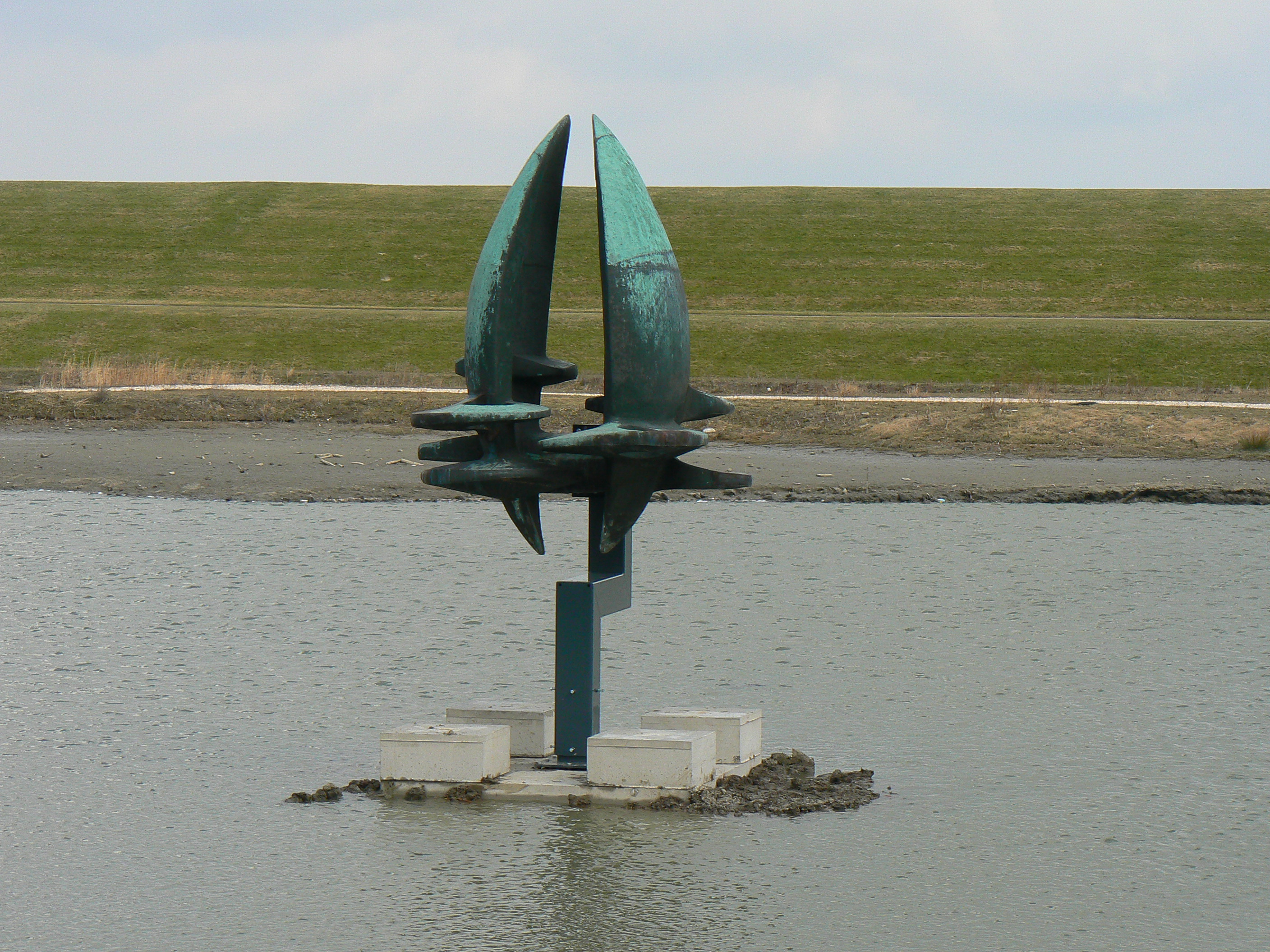 Sculpture Twee zeilen in de golven (1976) by Jan van Eyl in Delfzijl/The Netherlands